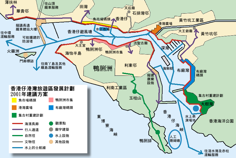 Proposed Design of Aberdeen Fisherman's Wharf, Hong Kong (2001 version) (in Traditional Chinese)